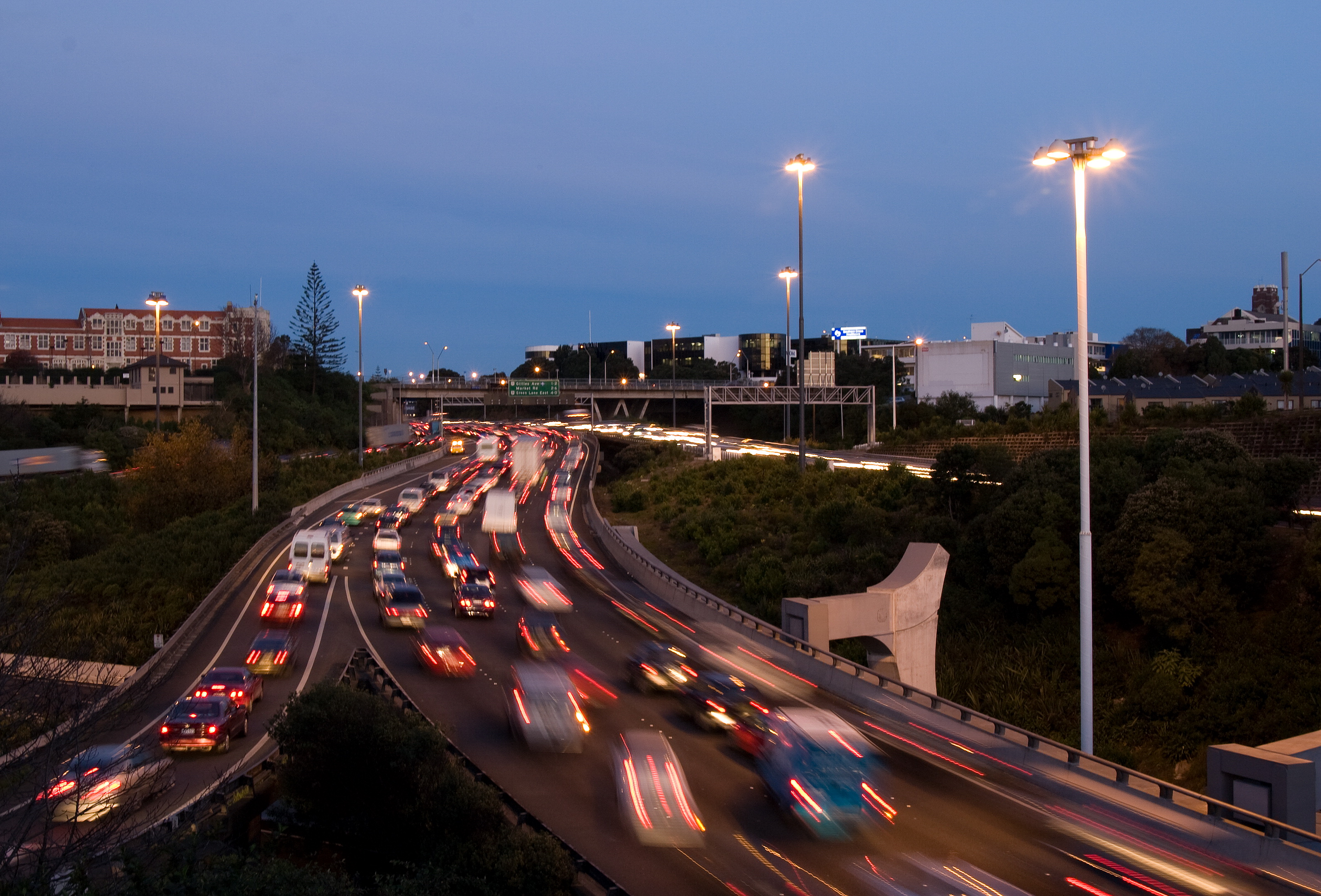 19 June 2007 Motorway South, Symonds Street Overpass Auckland New Zealand